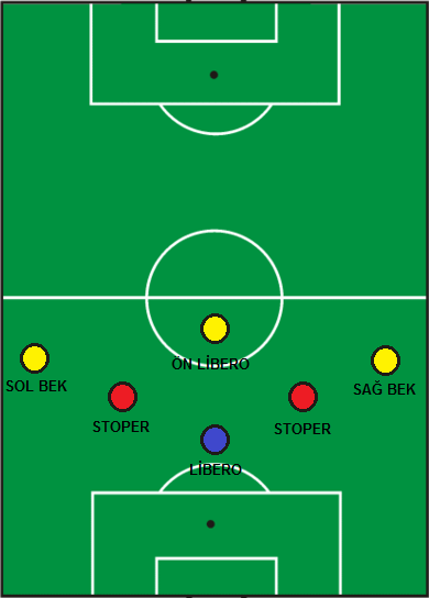 Places of defence positions in football field. (Turkish)